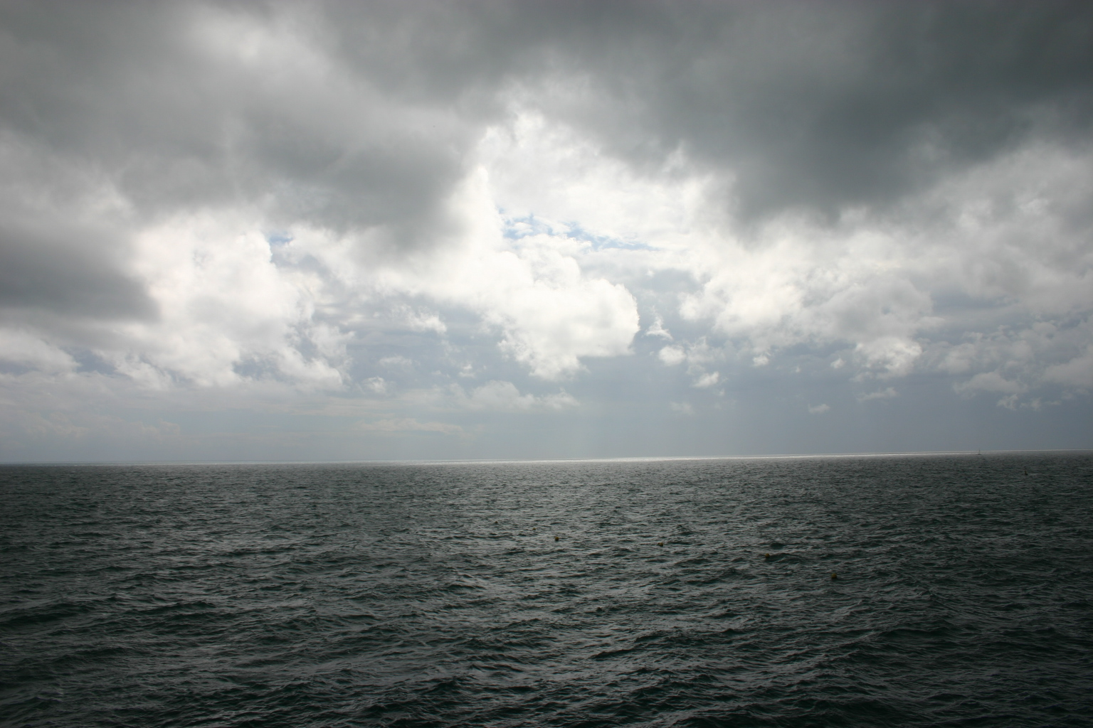 Black Sea, 43,9°N, 30,8°E, 2006-09-15, 14:30:34.